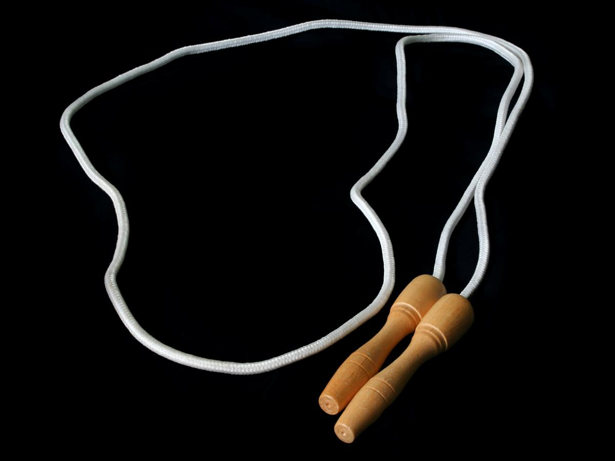 Jump rope